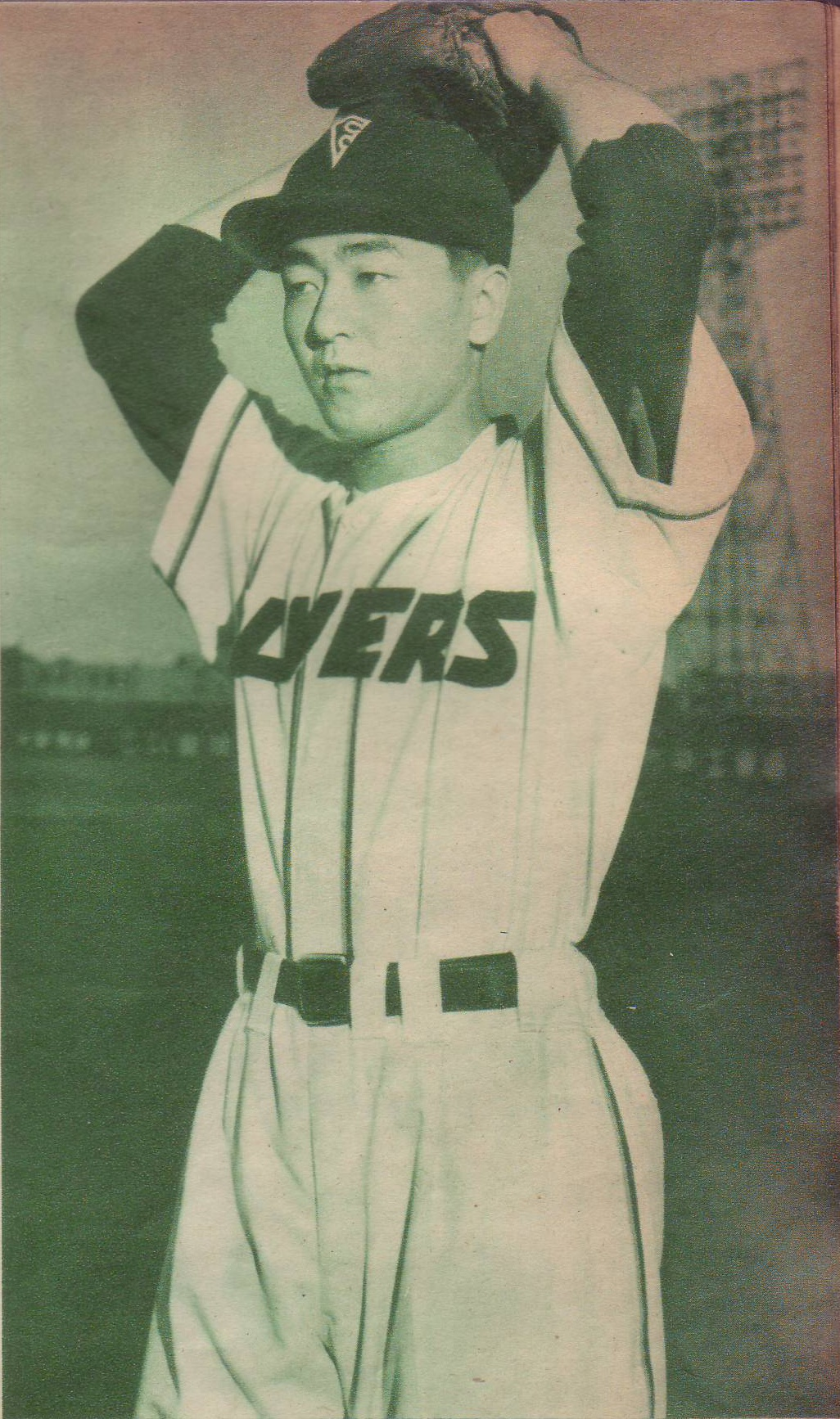 Ikuo Fukushima (Toei Fleyers). taken in 1956.